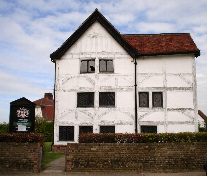 Queen Elizabeth's Hunting Lodge, Chingford, England, dates back to Tudor times, although it has been heavily altered over time. The building is open to the public. I took this photo myself and am releasing it into the public domain. After all, I didn't design the building, so it seems morally wrong for me to claim any rights over its likeness. Besides, it's not as if this is a very good picture anyway! Category:Images of buildings and structures Category:Images of England